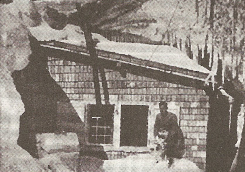 Top of Königspitze, WWI